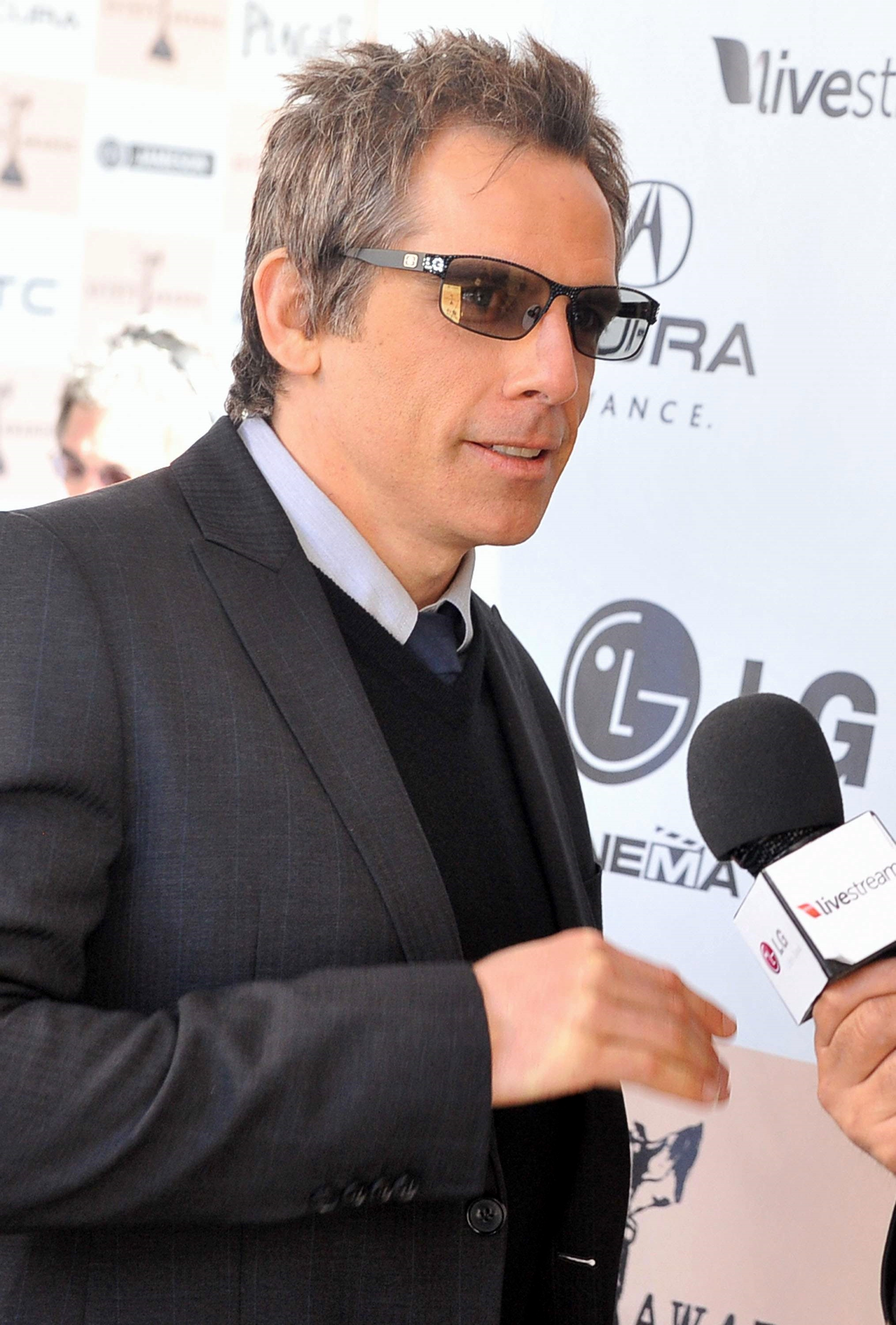 Ben Stiller at 2011 Independent Spirit Awards.